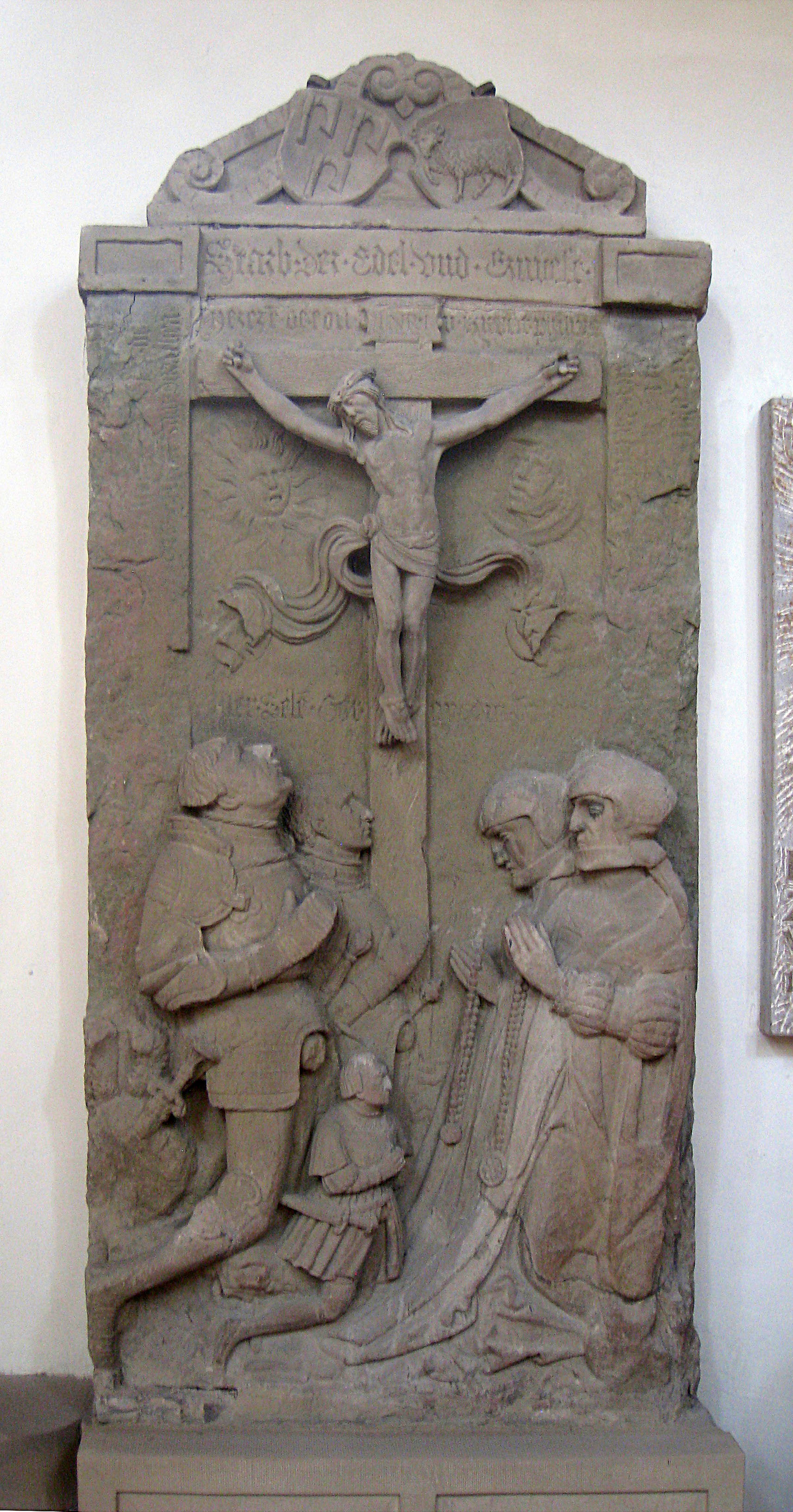 Interior view, St. Burkard church, Würzburg, Germany.